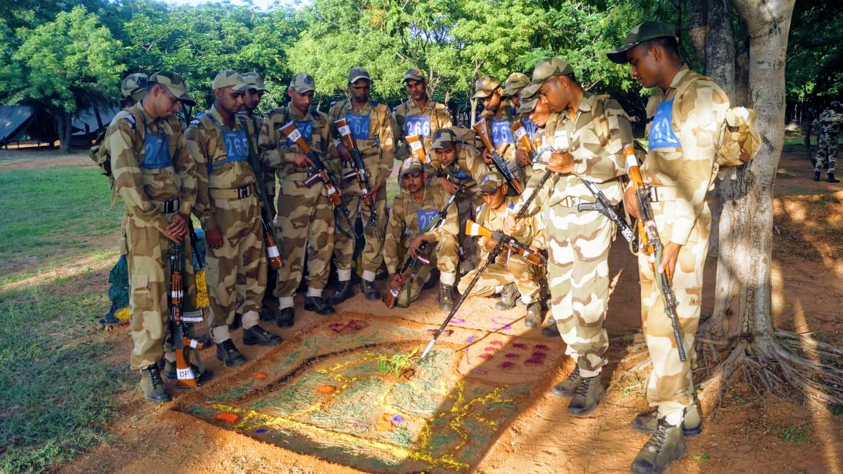 CISF subinspector trainees of 43rd batch during the jungle camp at NISA.